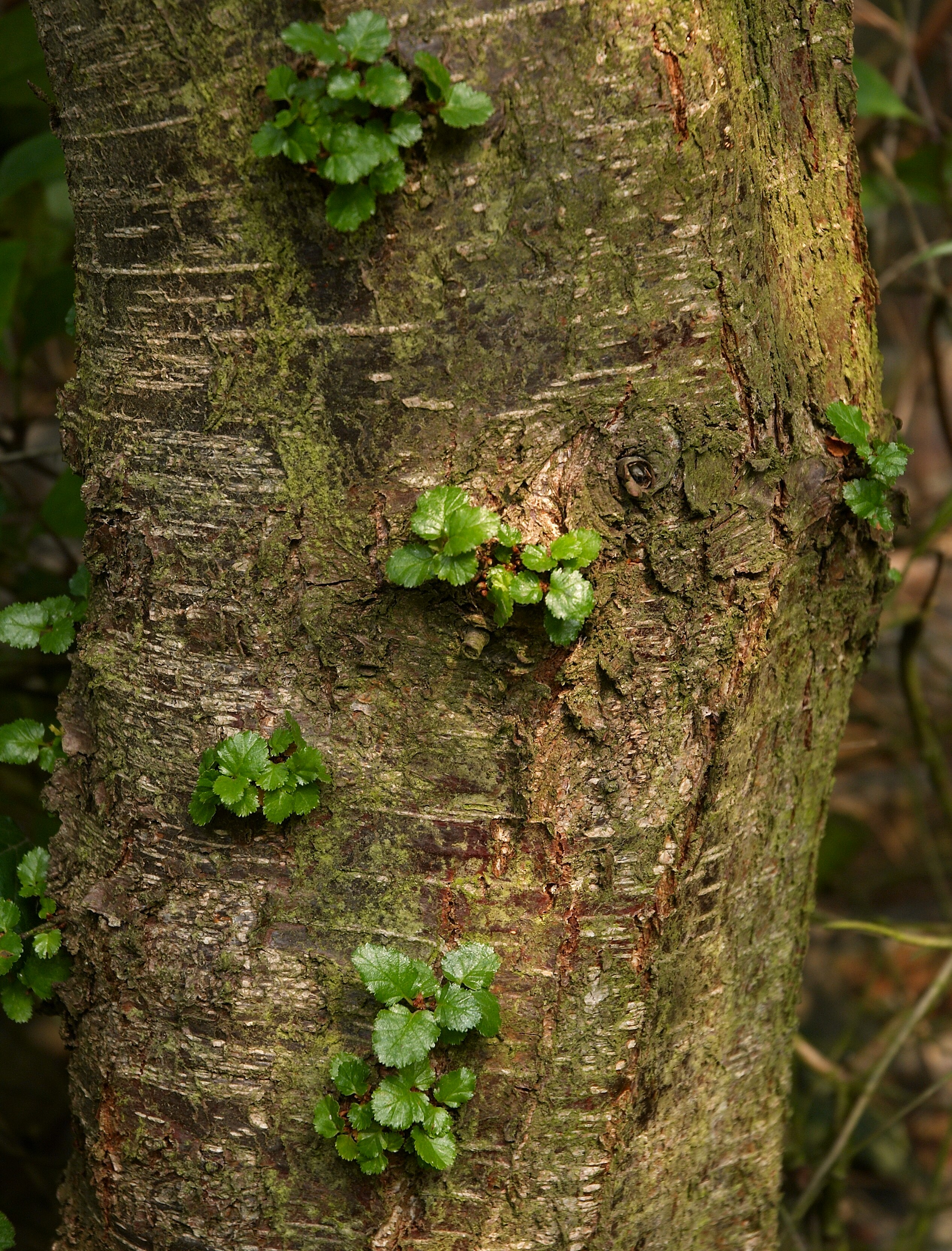 Antarctic Beech